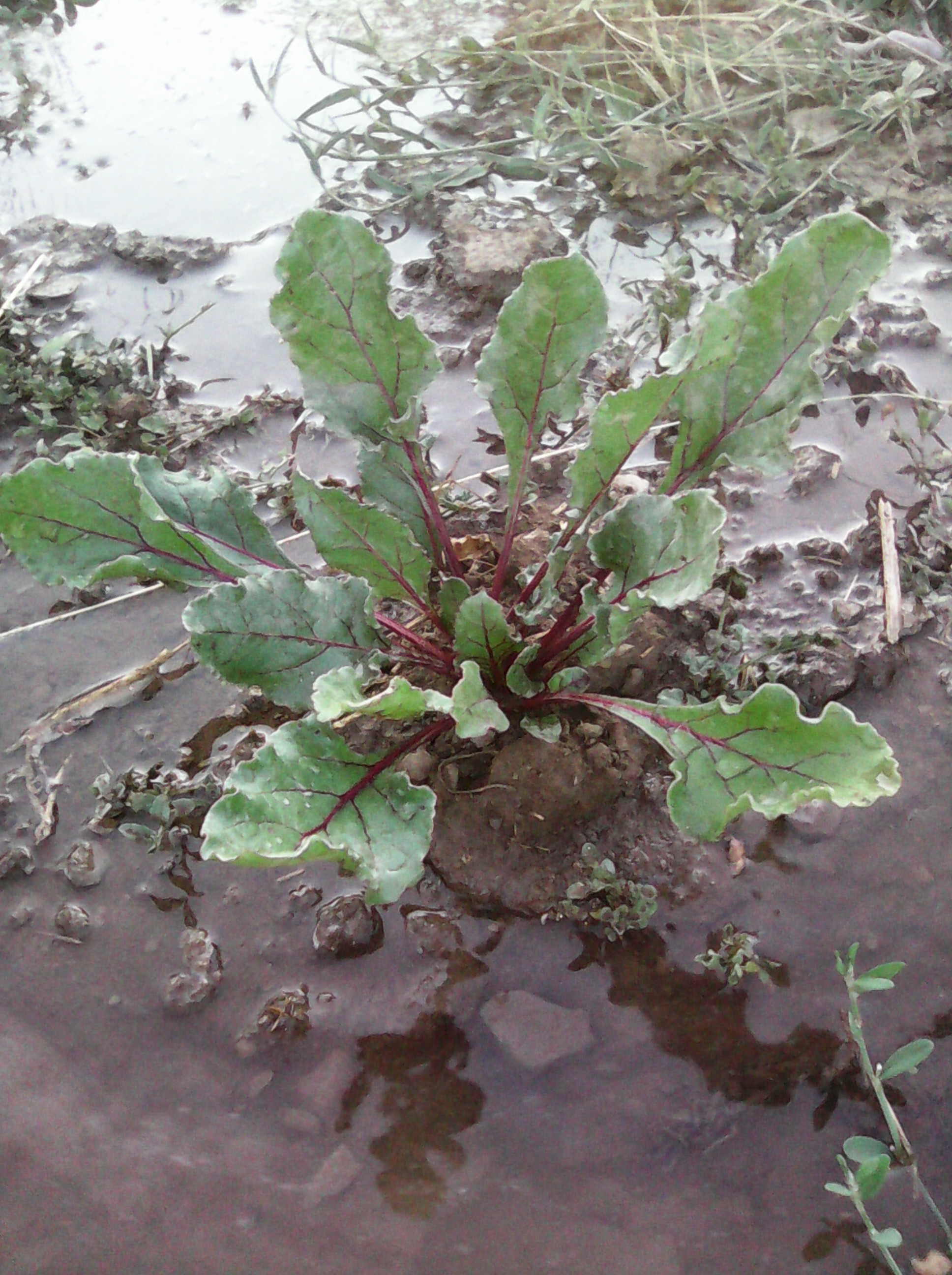 Beta vulgaris on flood irrigation, Castelltallat, Catalonia